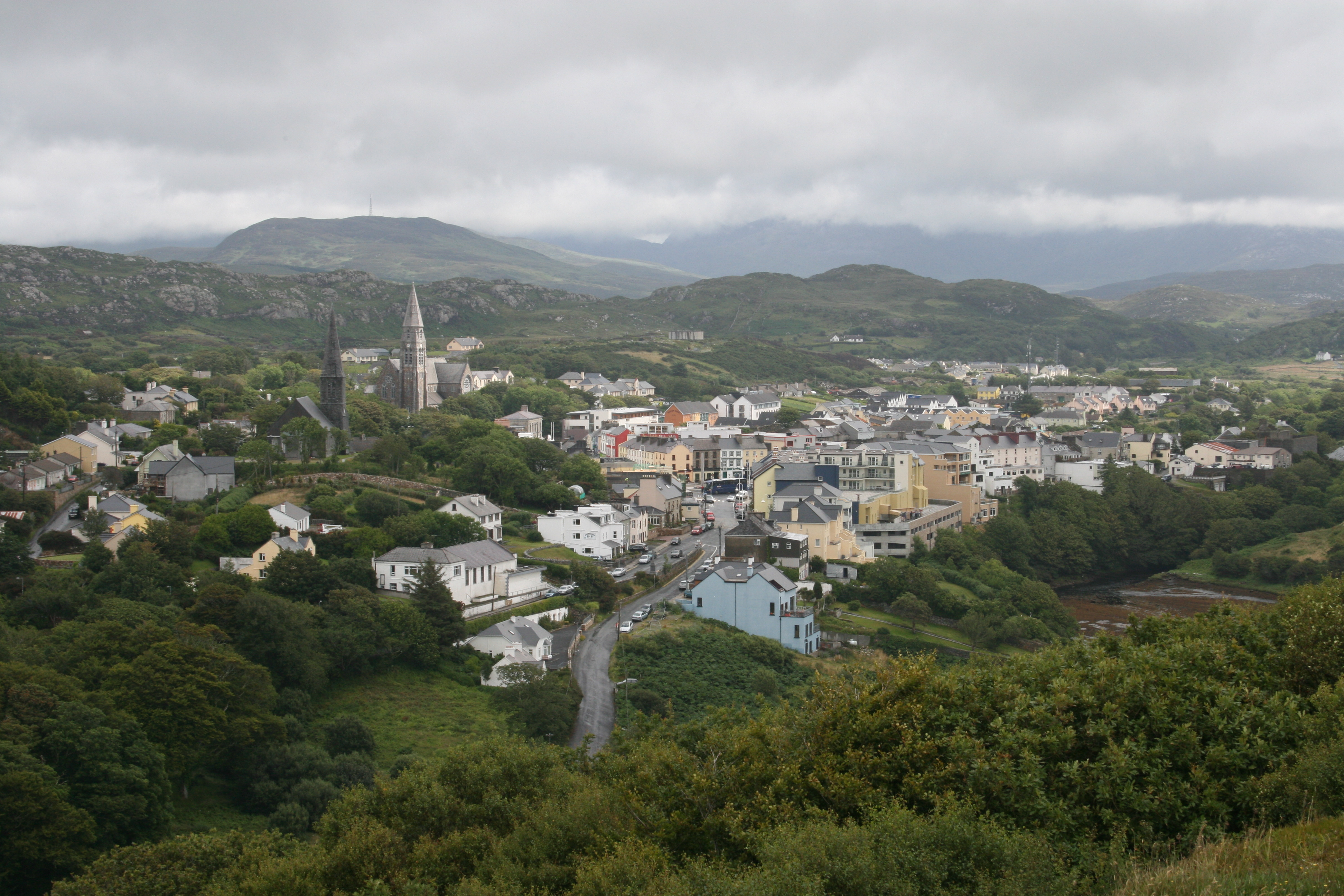 Clifden: view from D'Arcy Monument, County Galway, Republic of Ireland.